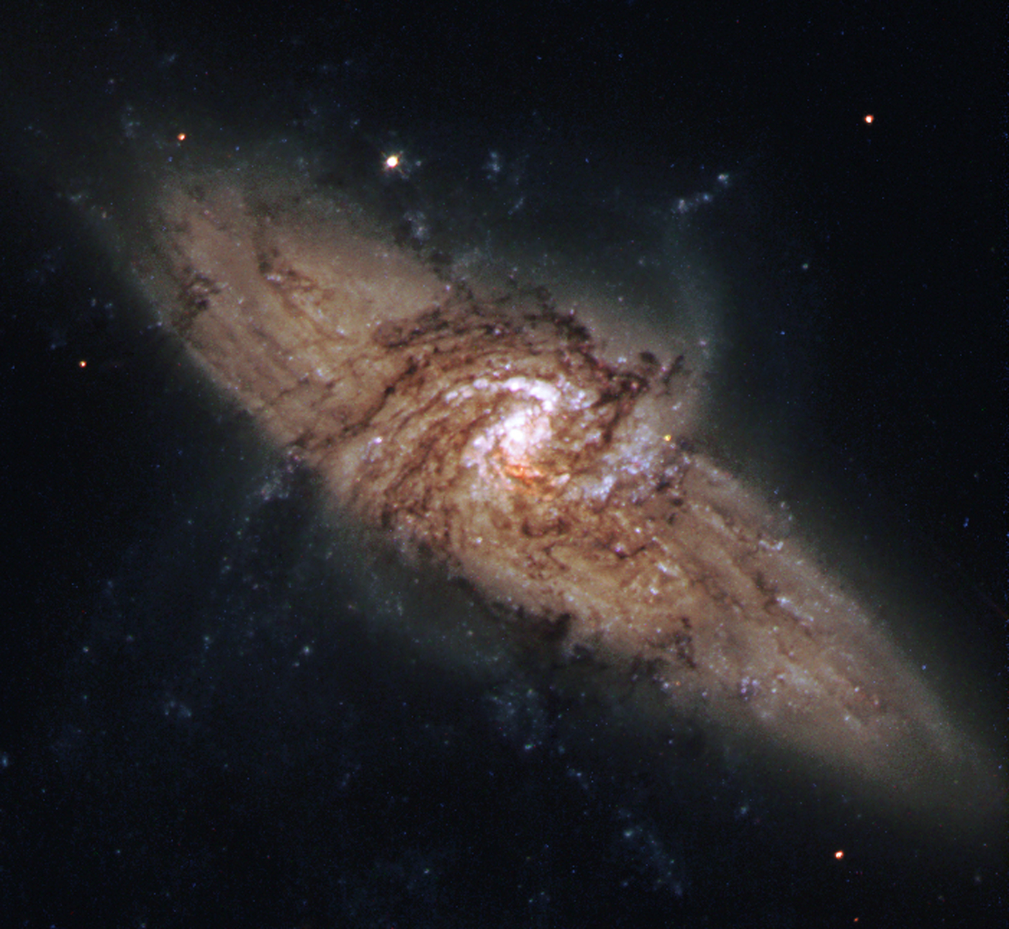 This new image from NASA's Hubble Space Telescope and its Wide Field and Planetary Camera 2 (WFPC2) shows the unique galaxy pair called NGC 3314. Through an extraordinary chance alignment, a face-on spiral galaxy lies precisely in front of another larger spiral. This line-up provides us with the rare chance to visualize dark material within the front galaxy, seen only because it is silhouetted against the object behind it. Dust lying in the spiral arms of the foreground galaxy stands out where it absorbs light from the more distant galaxy. This silhouetting shows us where the interstellar dust clouds are located, and how much light they absorb. The outer spiral arms of the front galaxy appear to change from bright to dark, as they are projected first against deep space, and then against the bright background of the other galaxy. NGC 3314 lies about 140 million light-years from Earth, in the direction of the southern hemisphere constellation Hydra. The bright blue stars forming a pinwheel shape near the center of the front galaxy have formed recently from interstellar gas and dust. A small, red patch near the center of the image is the bright nucleus of the background galaxy, NGC 3314b. It is reddened for the same reason the setting sun looks red. When light passes through a volume containing small particles (molecules in the Earth's atmosphere or interstellar dust particles in galaxies), its color becomes redder. The Hubble Heritage color image of NGC 3314 was constructed from archival images taken with WFPC2 in April 1999 by Drs. William Keel and Ray White III (University of Alabama) in blue and infrared light, combined with new images obtained by the Heritage team in March 2000 using blue, green and red filters.